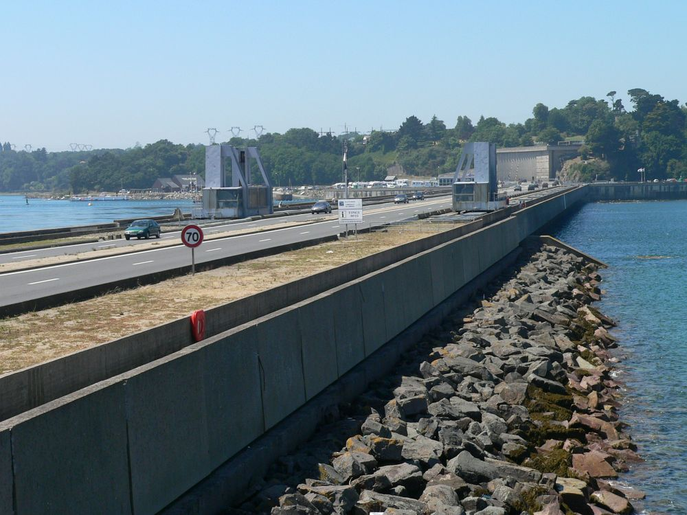 Tidal power-work at River Rance, Bretagne, France